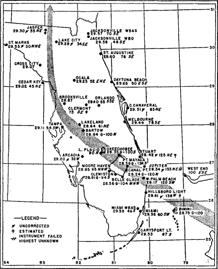 Map of highest sustained wind speeds (in mph) and lowest pressure (in inches) observations in Florida during the 1949 Florida hurricane